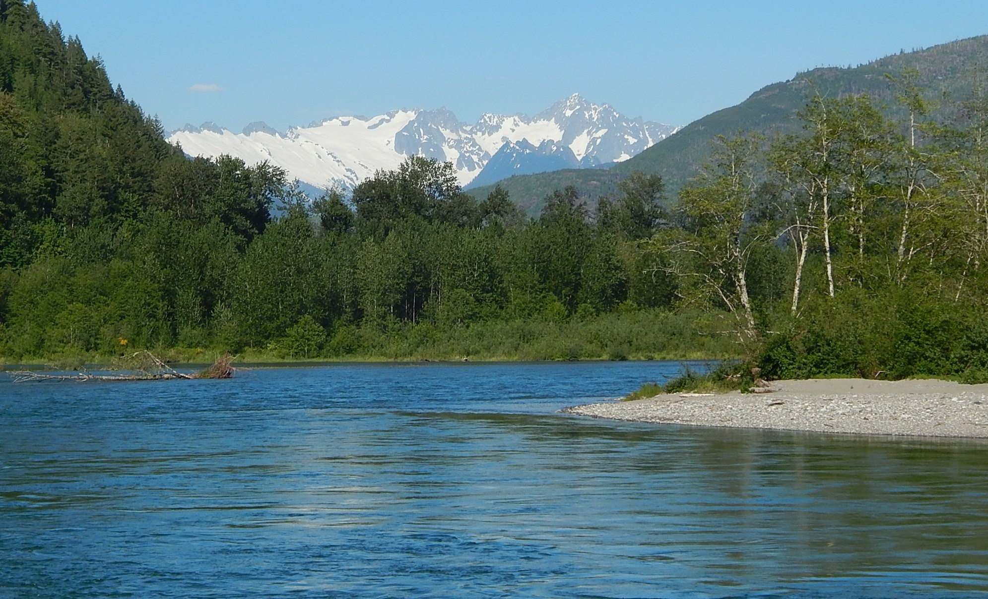 Eldorado Peak and Skagit River seen from North Cascades Highway near Rockport, Washington